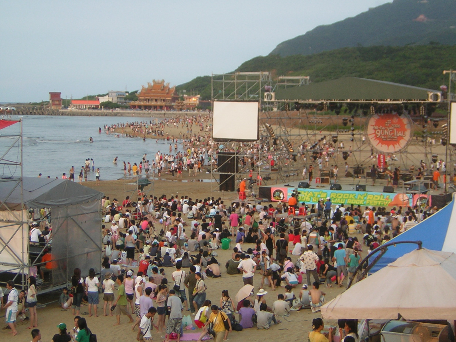 Hohaiyan Rock Festival held at Fulong Beach, Gongliao Country, Taipei County, Taiwan. Fulung Beach is one of the best beaches in the north of the island.中文（台灣）: 台灣台北縣貢寮鄉福隆海水浴場，為每年貢寮國際海洋音樂祭舉辦地點。